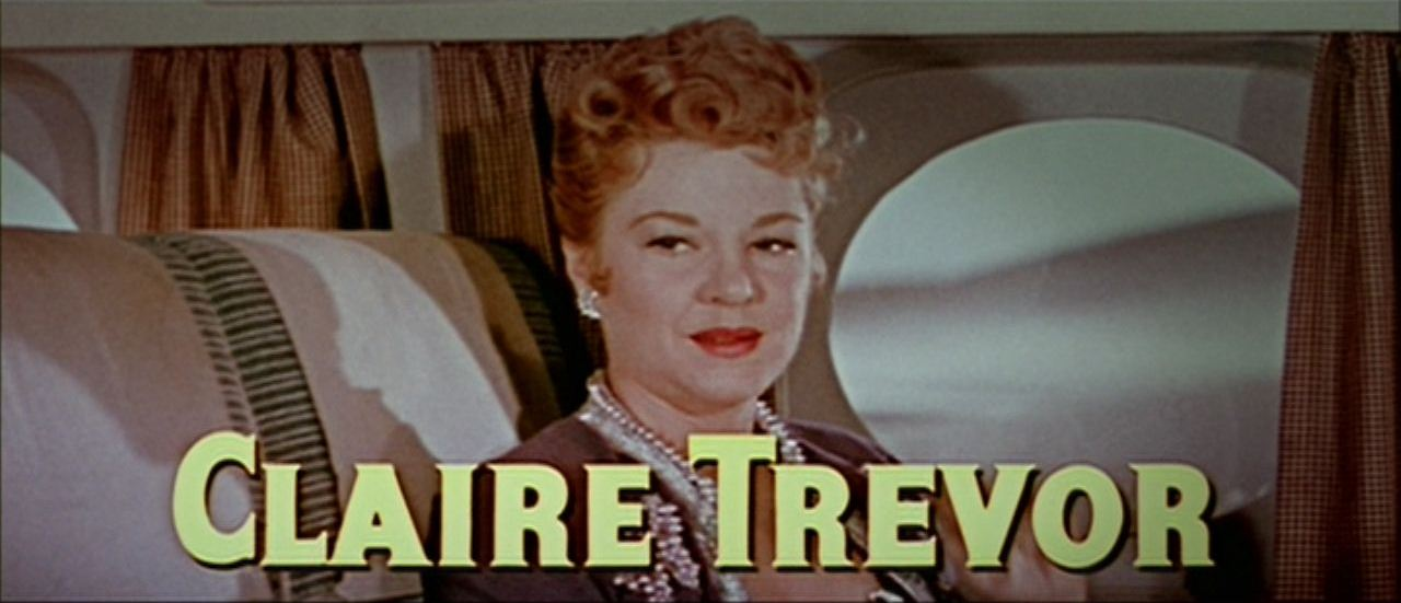 Screenshot showing Claire Trevor from the film trailer The High and the Mighty (1954).